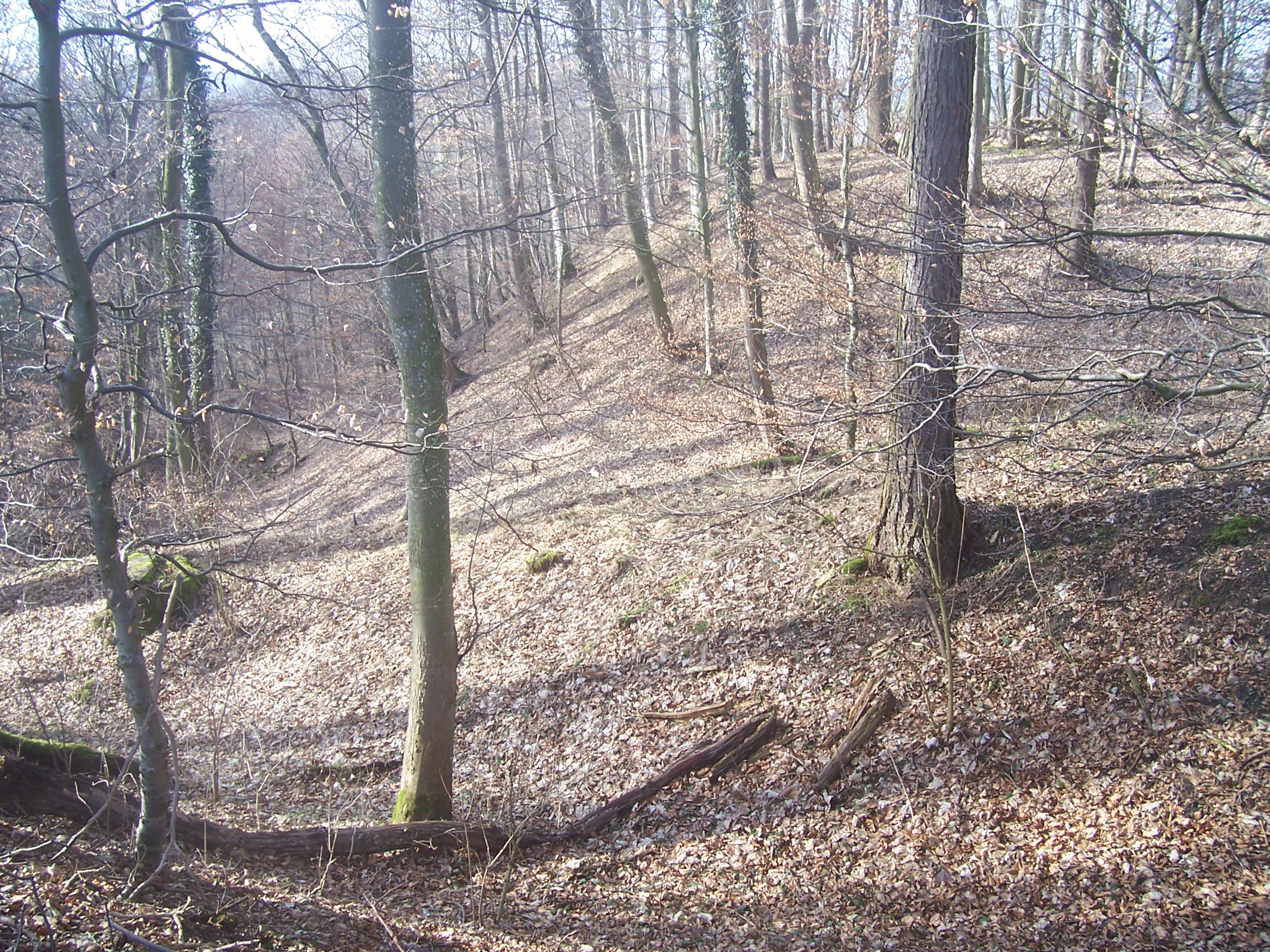 Burgstall Nordholz